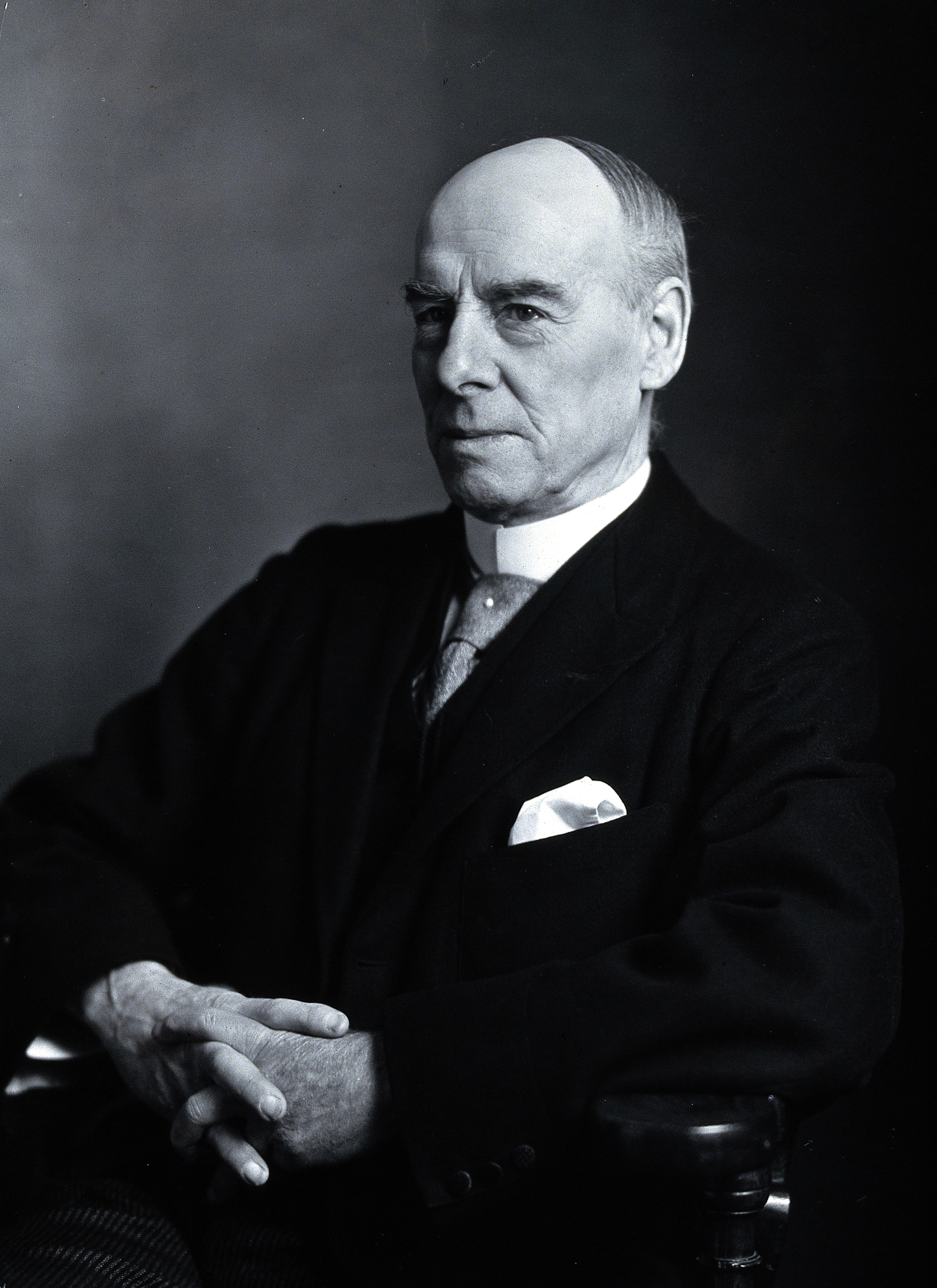 Norman Walker. Photograph by Drummond Young. Iconographic Collections Keywords: portrait photographs